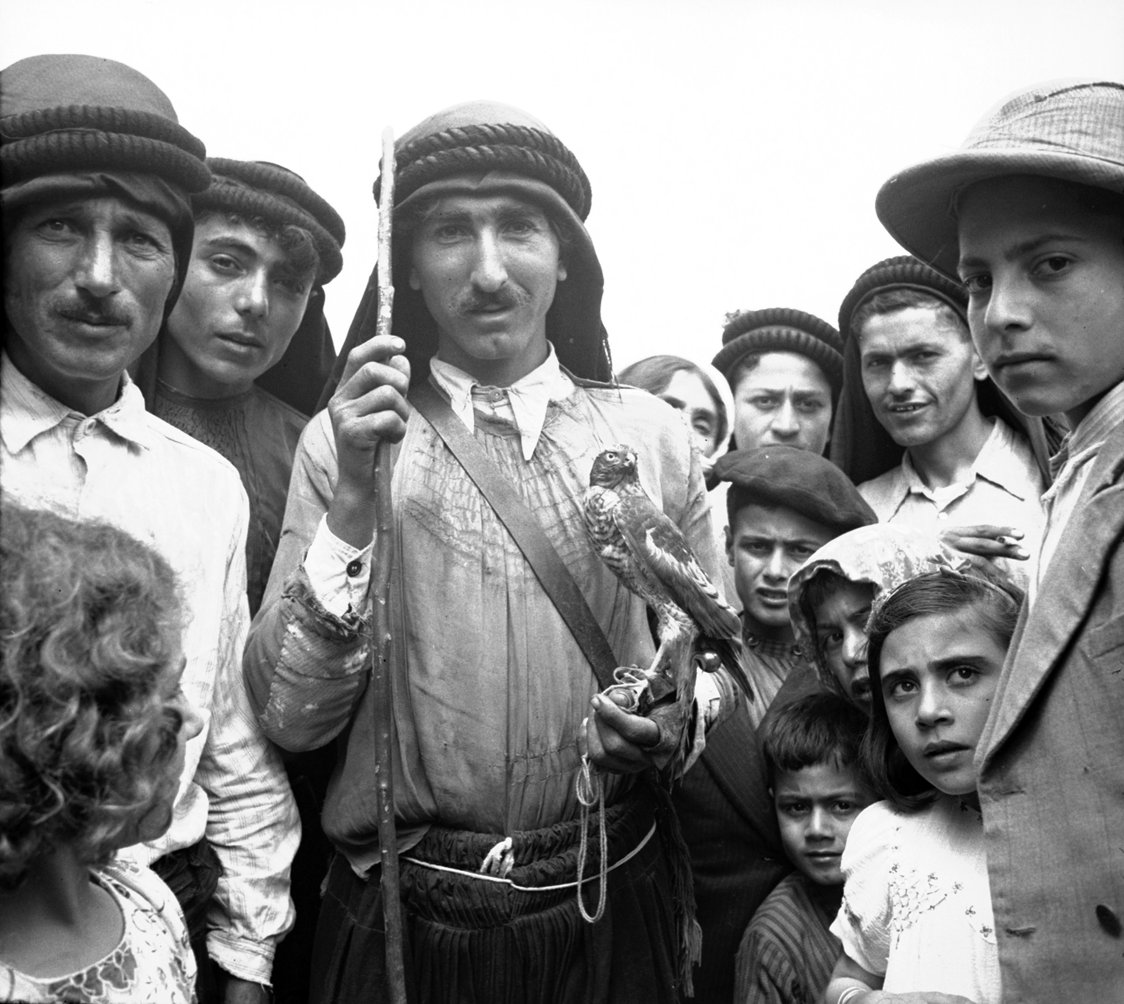 Alawite falconer in Banyas, Syria.